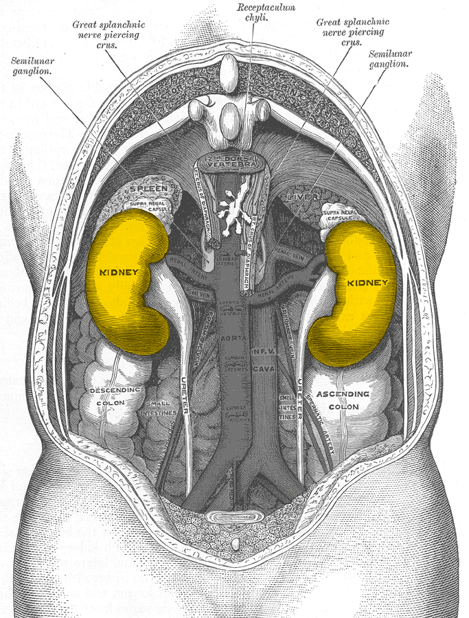 The relations of the viscera and large vessels of the abdomen. (Seen from behind, the last thoracic vertebra being well raised.) The kidneys are colored.